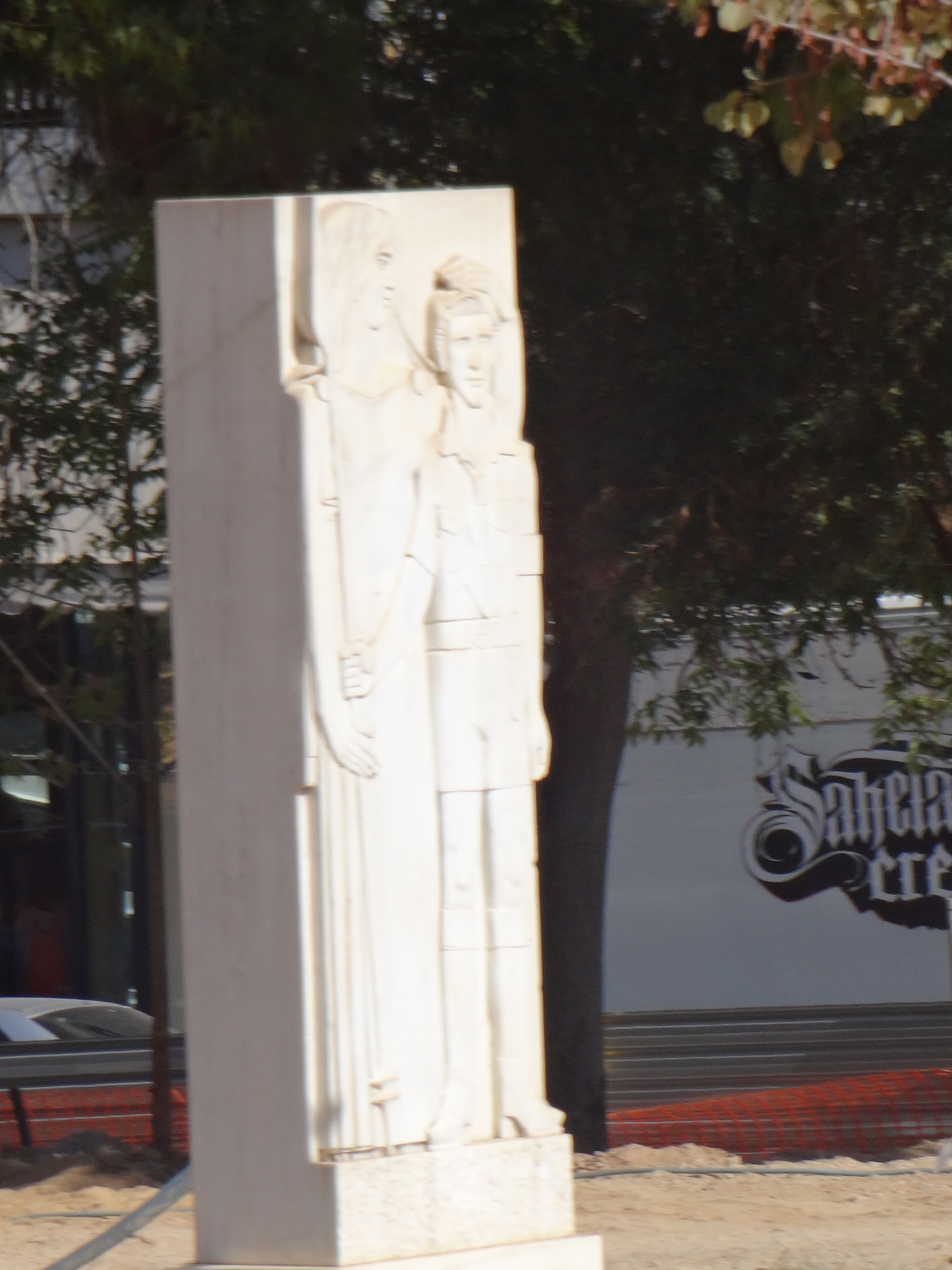 A monument to Greek Scouts of Aydin, killed by Turkish gangs in 1919. Erected in quarter New Smyrna, Athens, Greece.